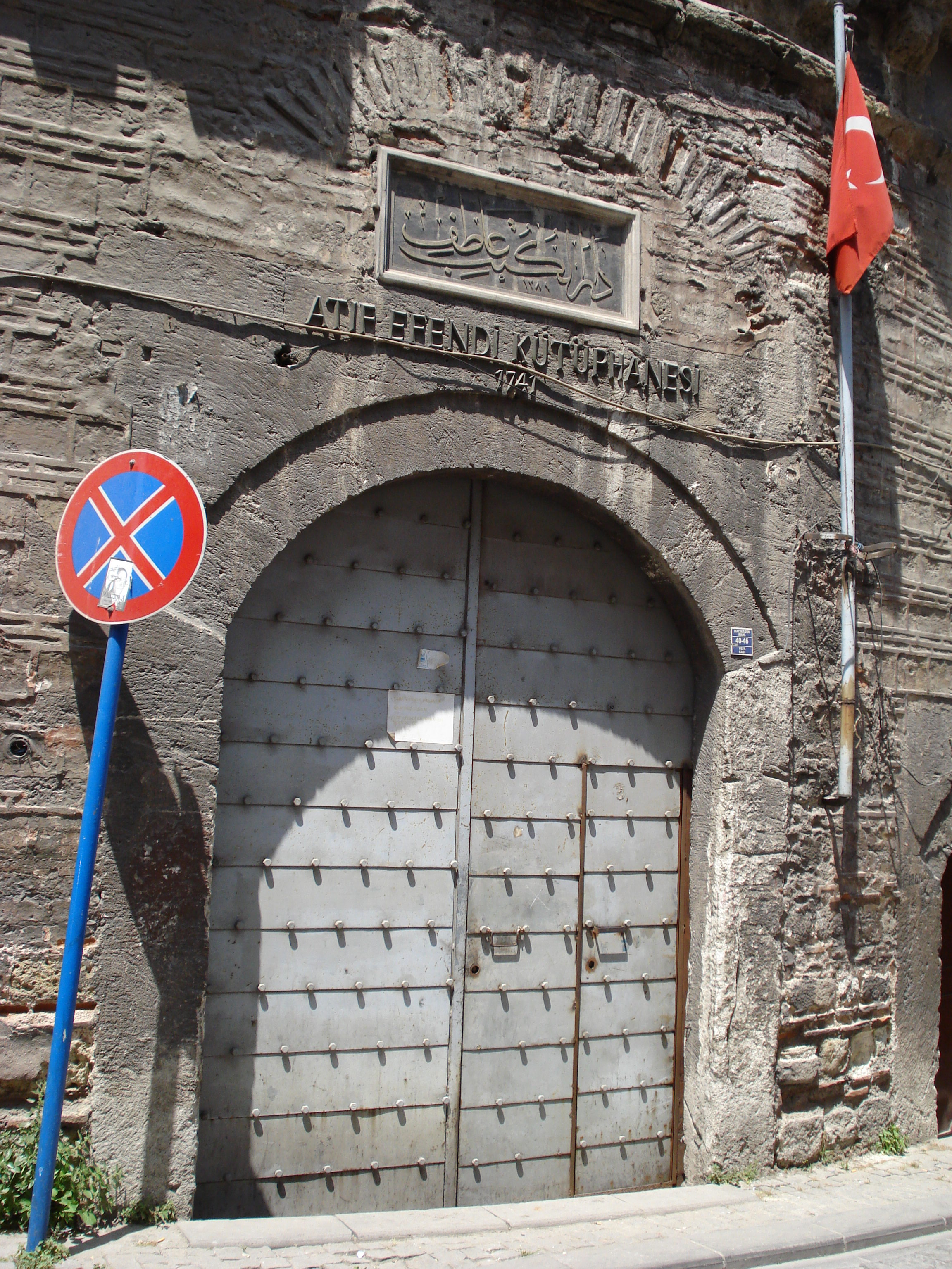 The door of Atif Efendi Library, Vefa, Istanbul.